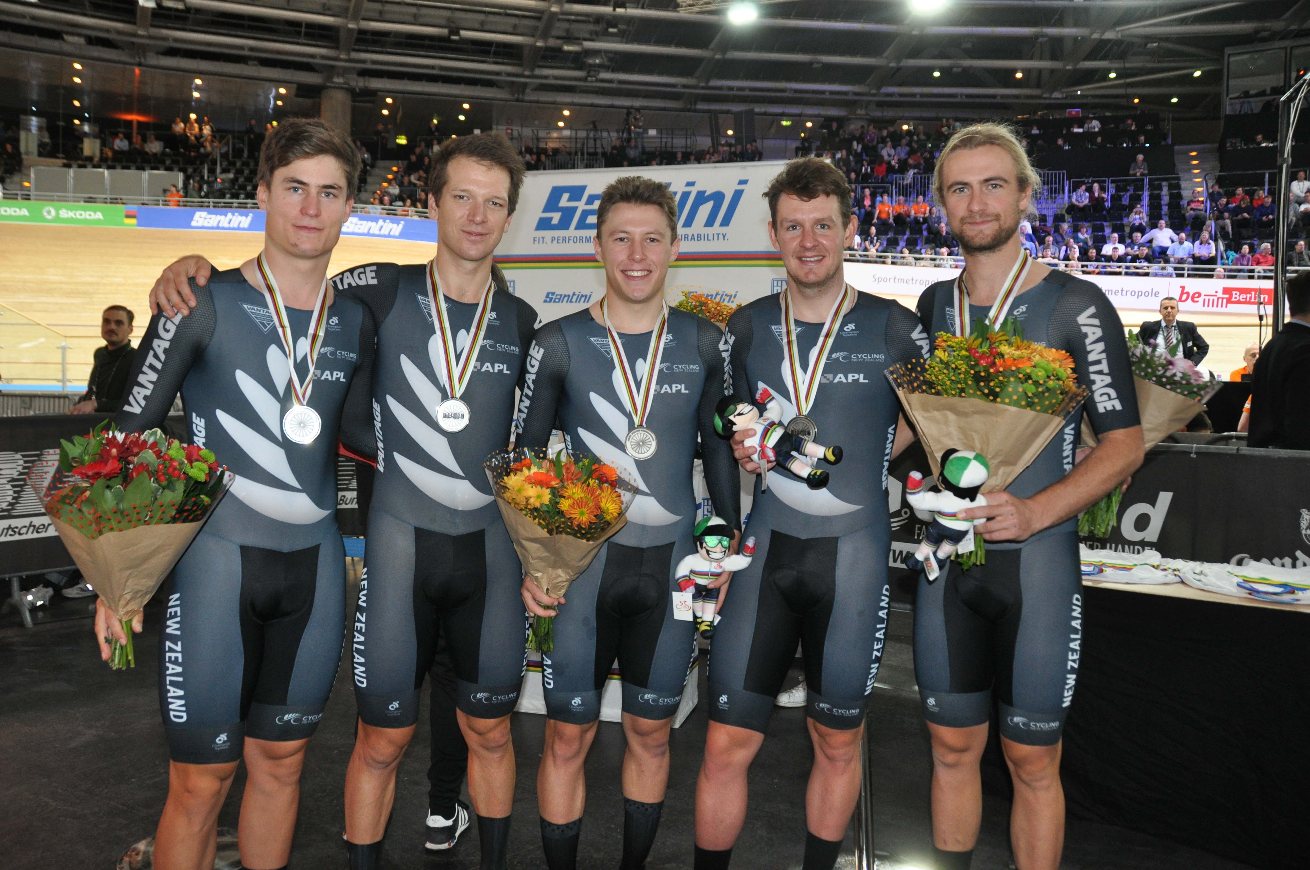 New Zealand's men's team pursuit (from left): Campbell Stewart, Aaron Gate, Corbin Strong, Jordan Kerby, Regan Gough